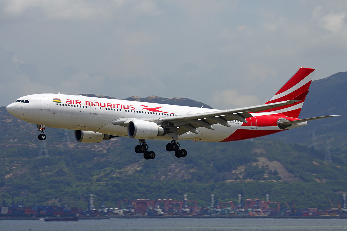 An Air Mauritius Airbus A330-202 on short final to Chek Lap Kok Airport (HKG / VHHH)